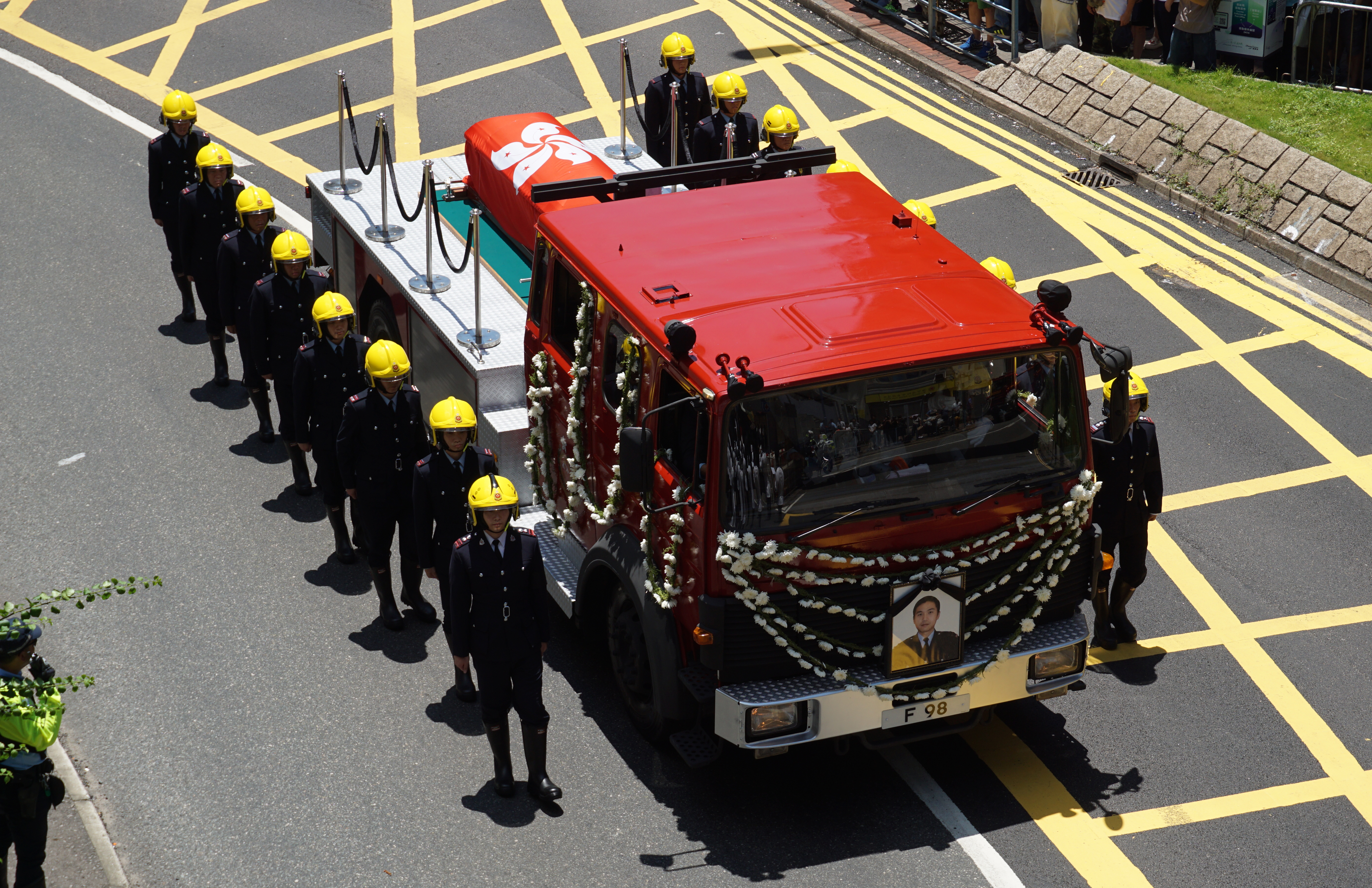 Samuel Hui Chi-kit, Hong Kong.